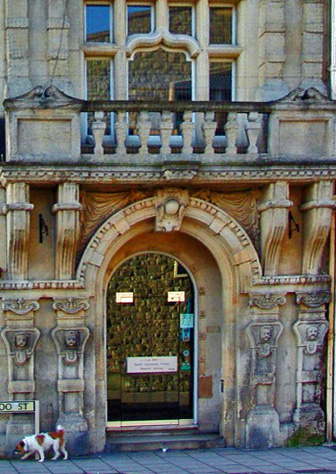 The Mercury Office, 1885, entrance aedicule, photo courtesy of Jane Cartney